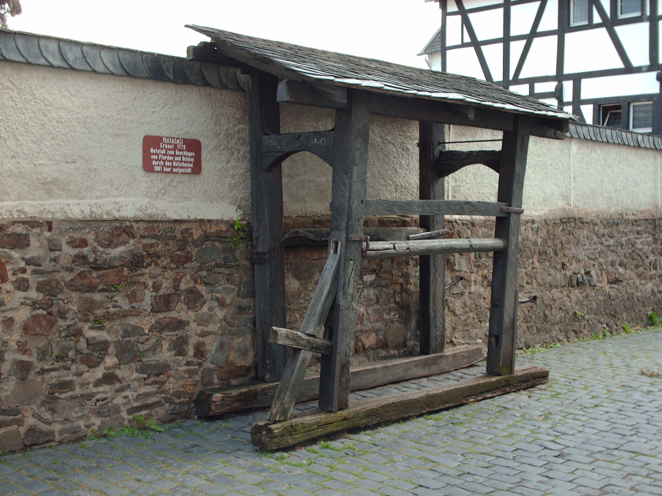 Stable, Bad Münstereifel, Germany check usage